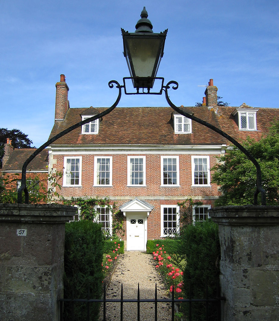 House at 57 The Close, Salisbury, England. Most of the houses within the Cathedral Close are associated with the Cathedral. This one looks like an archetypal Georgian House, although the dormer windows in the roof are probably a later addition. - Gateposts ornated with a yoke bracket supporting a square shaped pedestal lantern.